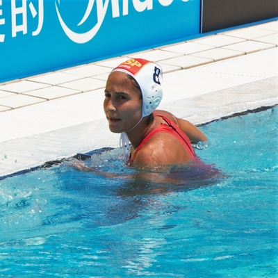 Spanish wáter polo player